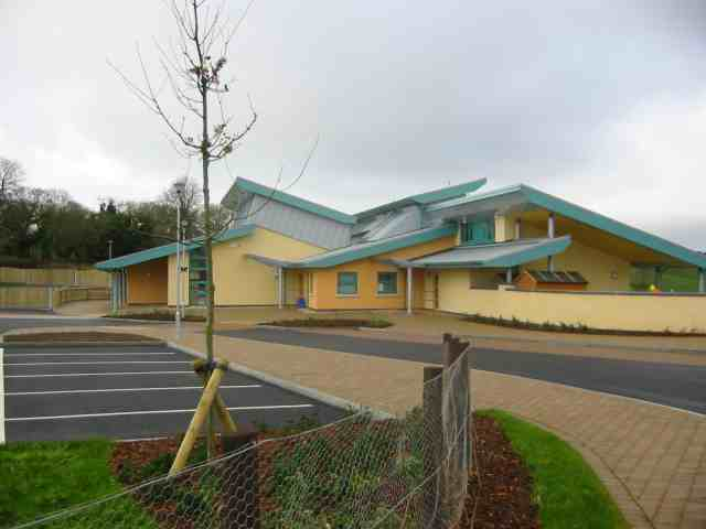 Jeffreyston School. A brand new school but they forgot to provide accommodation for the outdoor toys hence the "shed"